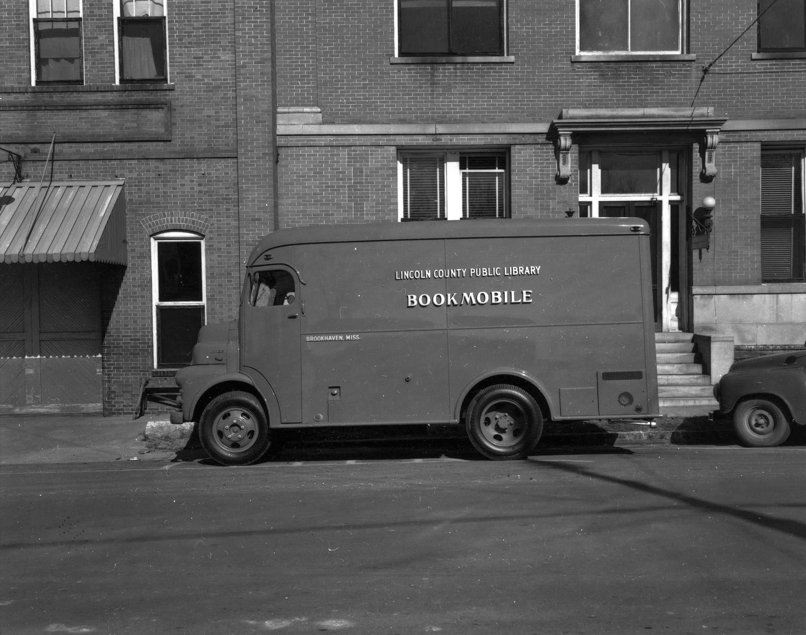 Lincoln County Public Library Bookmobile, Exterior, Brookhaven, Mississippi.